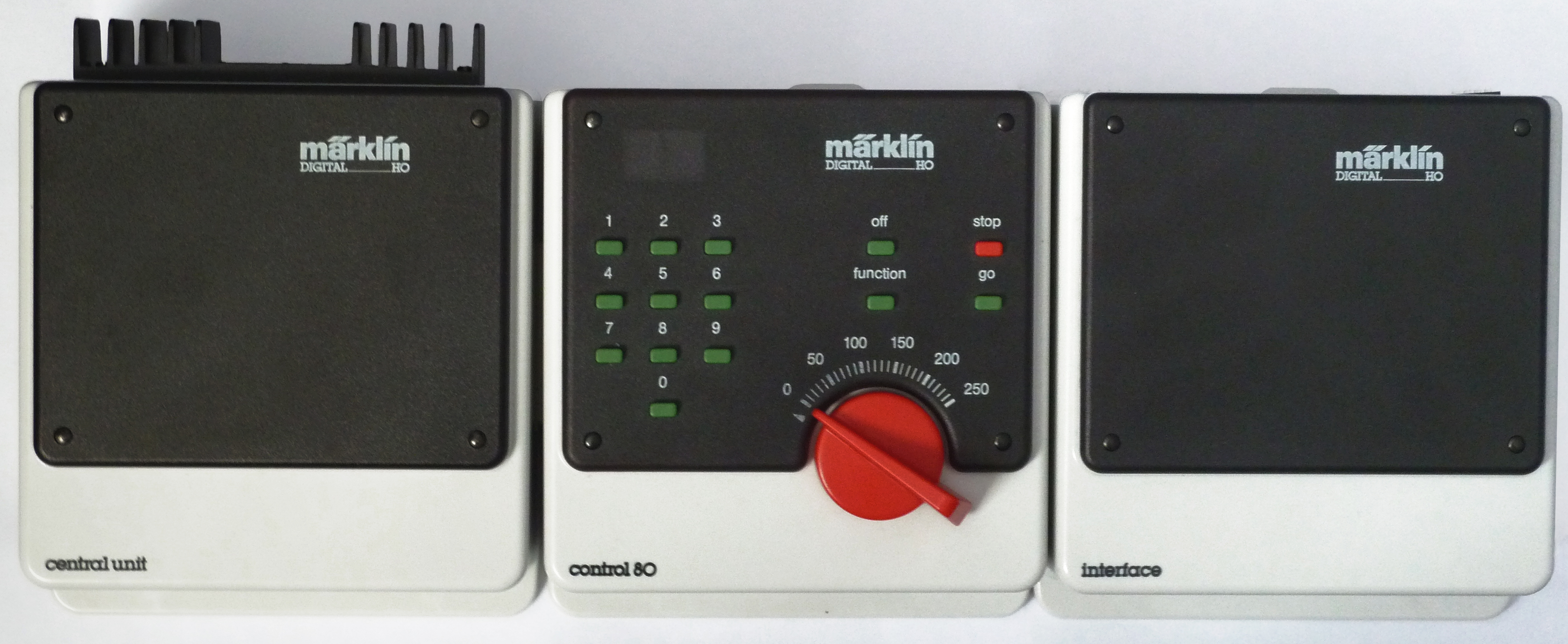 Märklin Digital - central unit, control 80 and interface